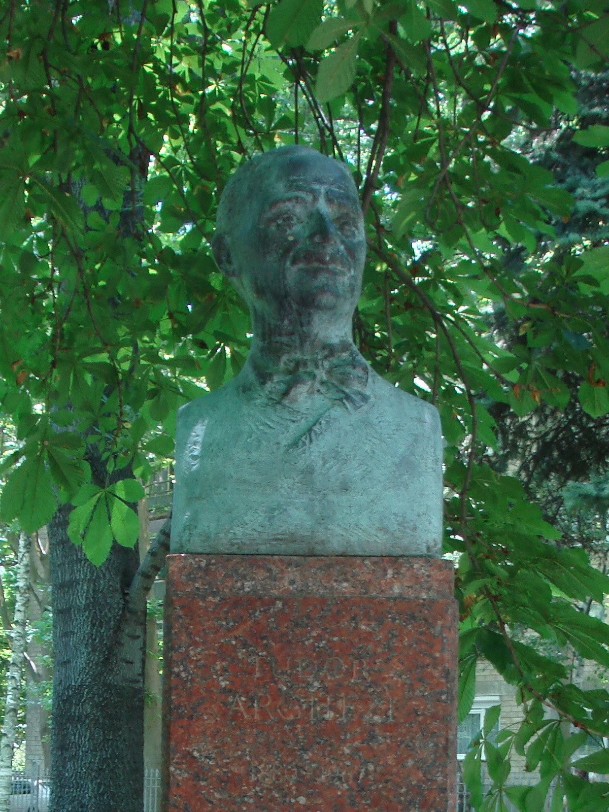 Vasile Alecsandri by Dimitrie Verdeanu (1995) in the Alley of Classics of Chişinău.